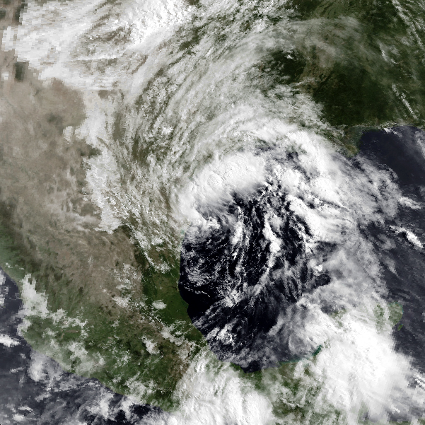 Tropical Storm Arlene on June 19, 1993